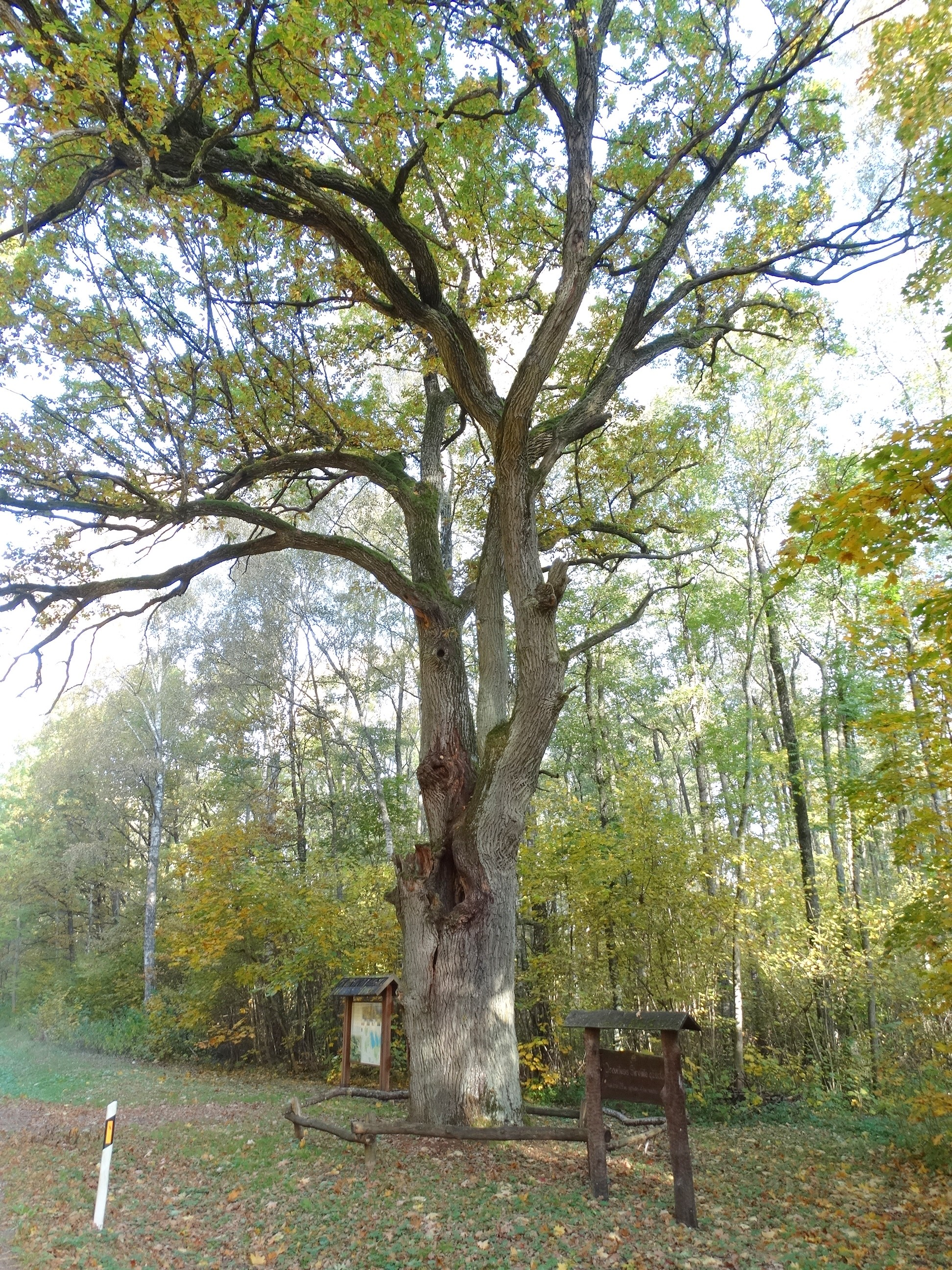 Drevėtasis Širvinto Oak, Lazdijai district, Lithuania